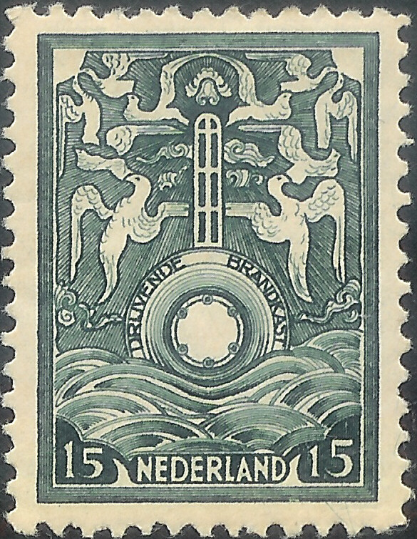 Netherlands - Marine insurance stamp - 015